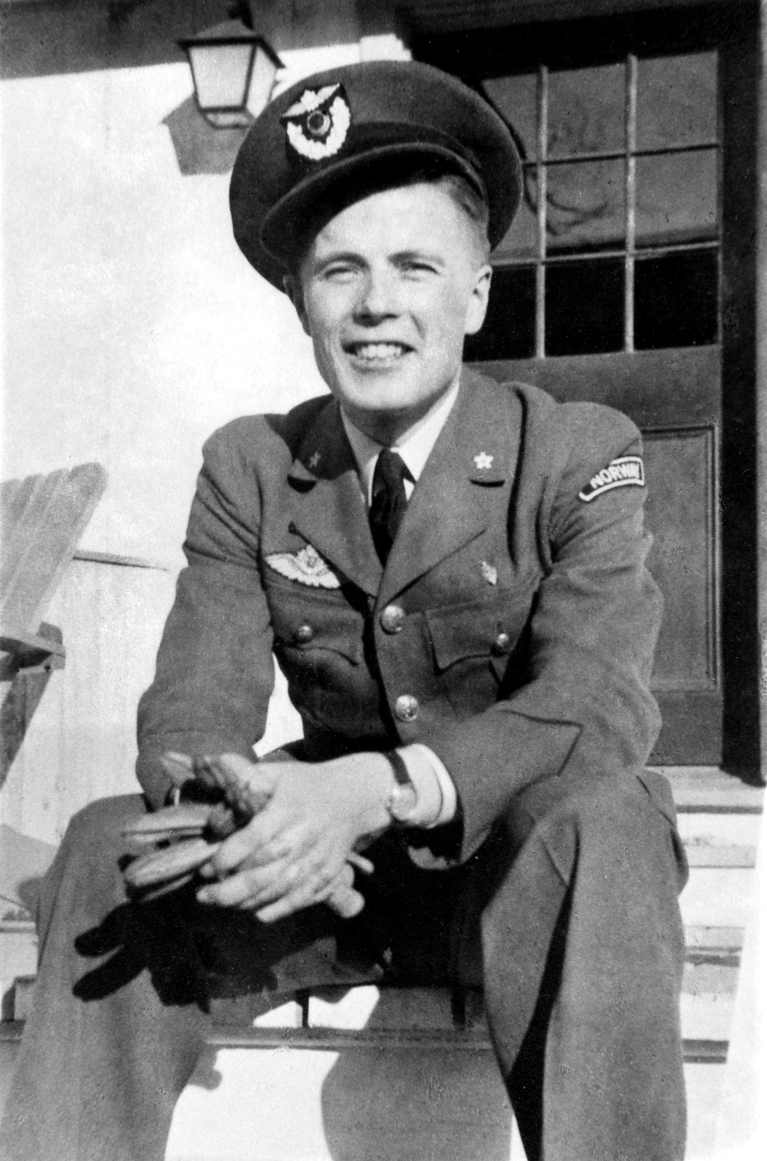 WWII pilot Per Waaler in Little Norway, Canada, 1940/1941Norsk bokmål: Jager- og bombeflypilot Per Waaler i Little Norway i 1940/41